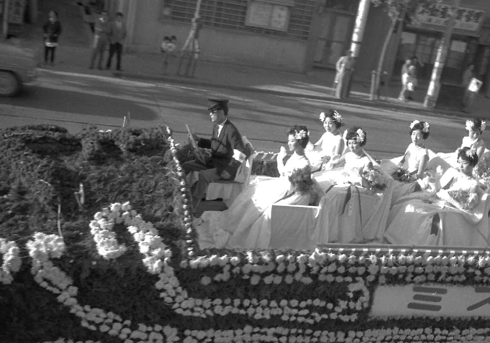 神戸市港祭り花電車（湊川公園前）日本 - The Festival of Kobe Port, Japan , a vehicle decorated with flowers